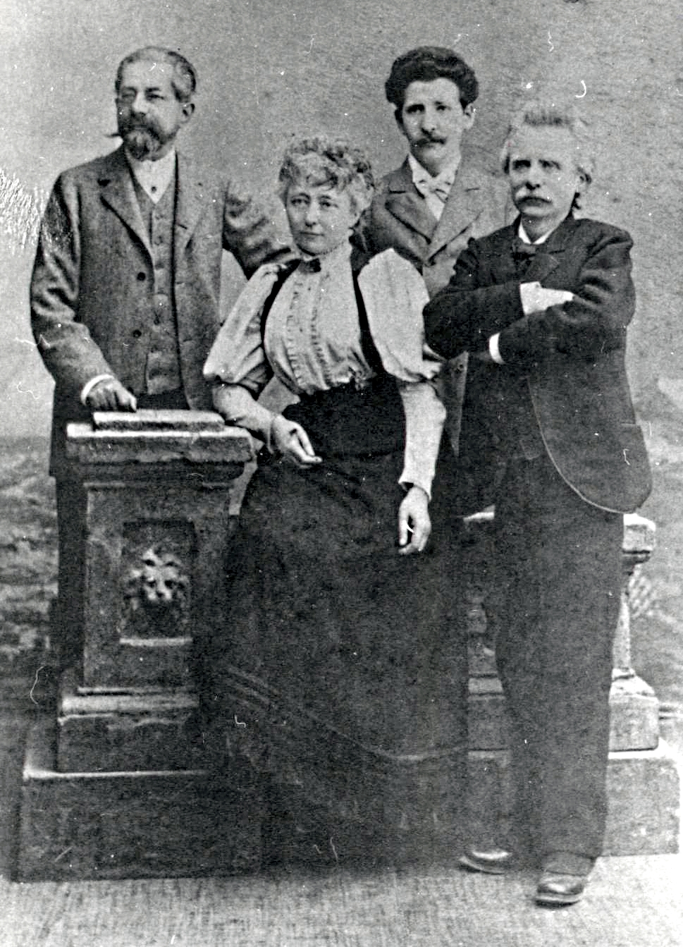 Max Abraham (1831-1900), Nina Grieg (1845-1935), Oscar Meyer, Edvard Grieg (1843-1907)